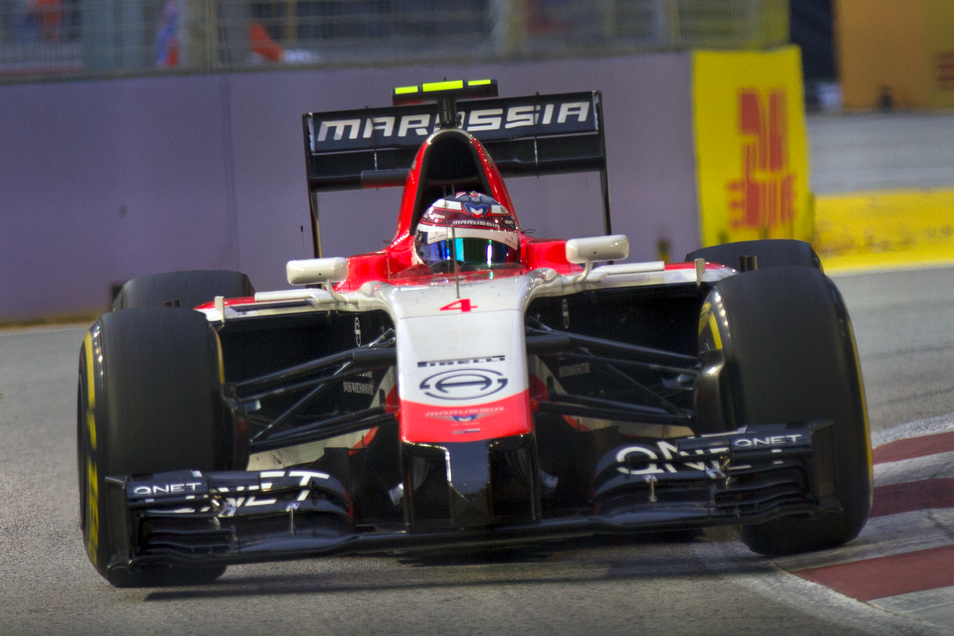 Formula One 2014 Rd.14 Singapore GP: Max Chilton (Marussia)